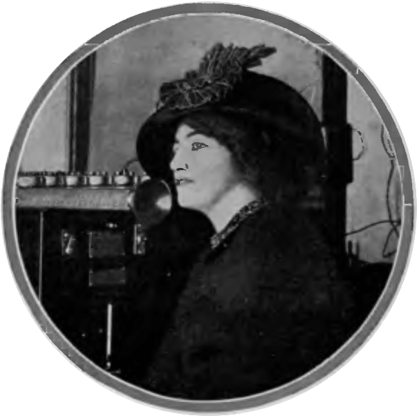 One of the earliest photos of an entertainment radio broadcast, by French opera soprano (and New York Manhattan Opera Company star) Mariette Mazarin on February 24, 1910, singing selections from "Carmen" into radio entrepreneur Lee De Forest's experimental transmitter. From 1907 to 1910 De Forest, an opera buff, held a half-dozen promotional events in which he broadcast live performances of stars like Mazarin and Farrar, plus Enrico Caruso of the New York Metropolitan Opera, using his primitive arc converter AM radio transmitter. There were few radio receivers at the time equipped to receive AM transmissions, so these were publicity events. DeForest did not inaugurate regular entertainment broadcasts until late 1916, over station 2XG.